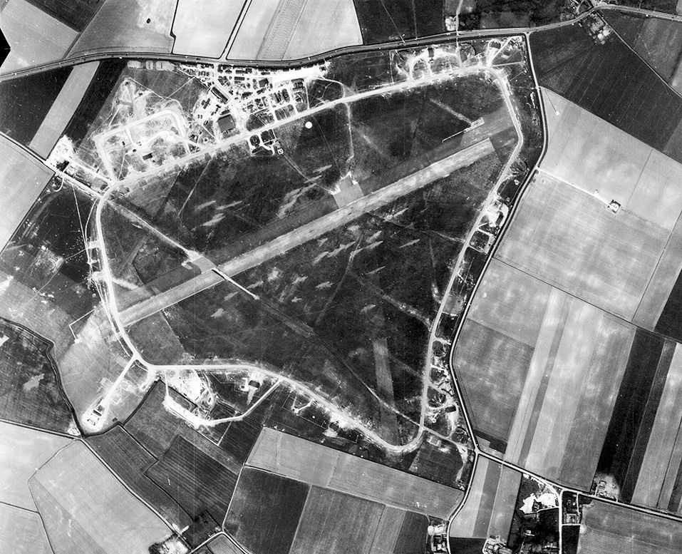 Aerial photograph of Bottisham airfield, 19 April 1944. Photograph taken by 7th Photographic Reconnaissance Group, sortie number US/7PH/GP/LOC285. English Heritage (USAAF Photography).